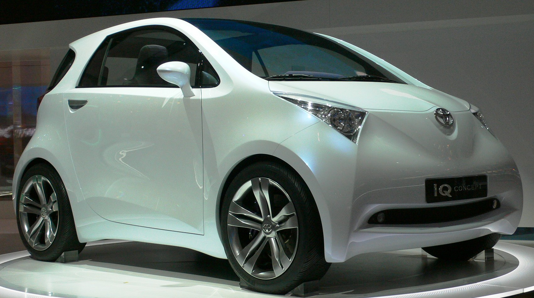 Toyota iQ Concept photographed in Tokyo Motor Show 2007